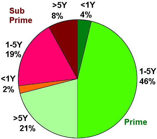 Composition of the 15.5 trillion US dollar credit derivatives in the United States for the second quarter of 2008. Green tints indicate derivatives for Prime or Investment Grade assets, and red, pink and orange indicate sub-prime asset derivatives. The numbers followed by "Y" indicate the years until maturity.